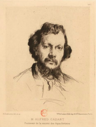 Print of a portrait of Alfred Cadart, fondateur de la Société des Aqua-fortistes [1828-1875], designed and engraved by Marcellin Desboutin, in L'Illustration nouvelle, volume 13, Paris, Veuve Cadart [publisher], 1881.